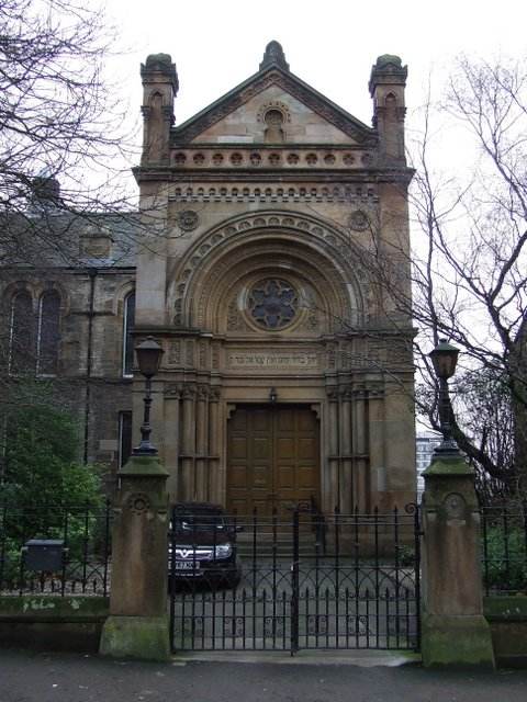 Hill Street synagogue Jewish Orthodox Synagogue at the west end of Hill Street.